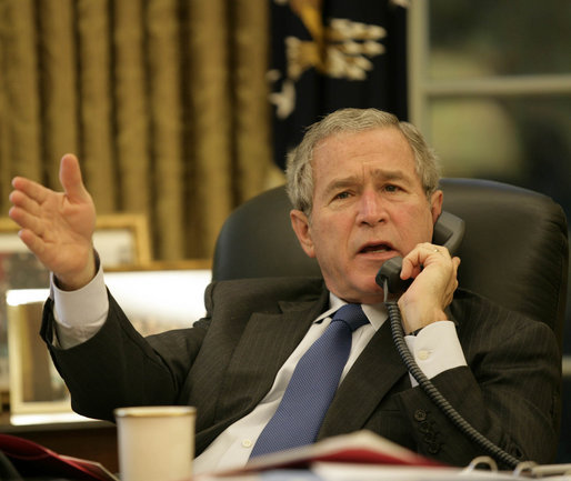 President George W. Bush gestures as he speaks with Iraq's Prime Minister Nouri al-Maliki during a telephone conversation Monday, Oct. 16, 2006, in the Oval Office. White House photo by Eric Draper